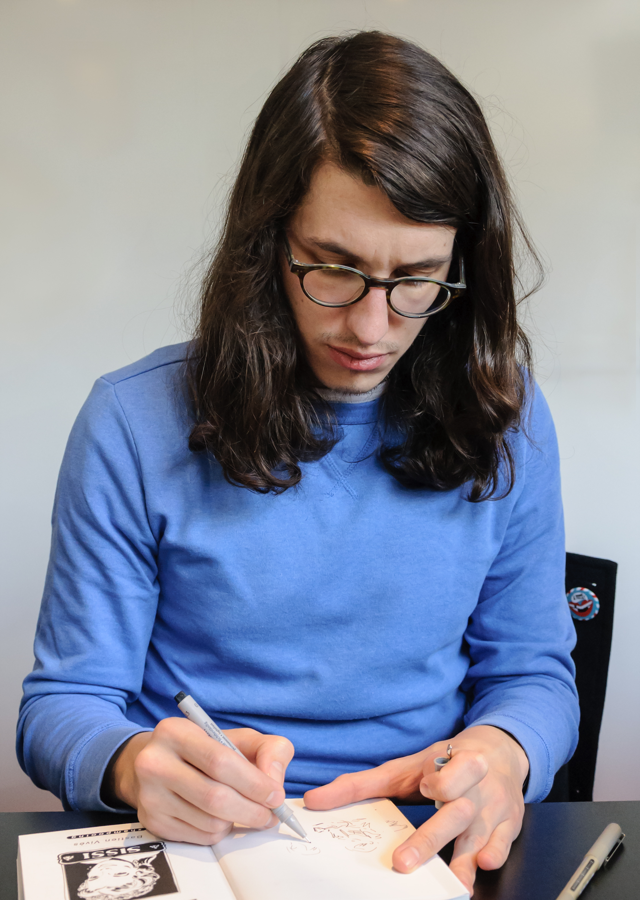 Bastien Vivès in autograph session at the 40th Angoulême International Comics Festival, 2013.